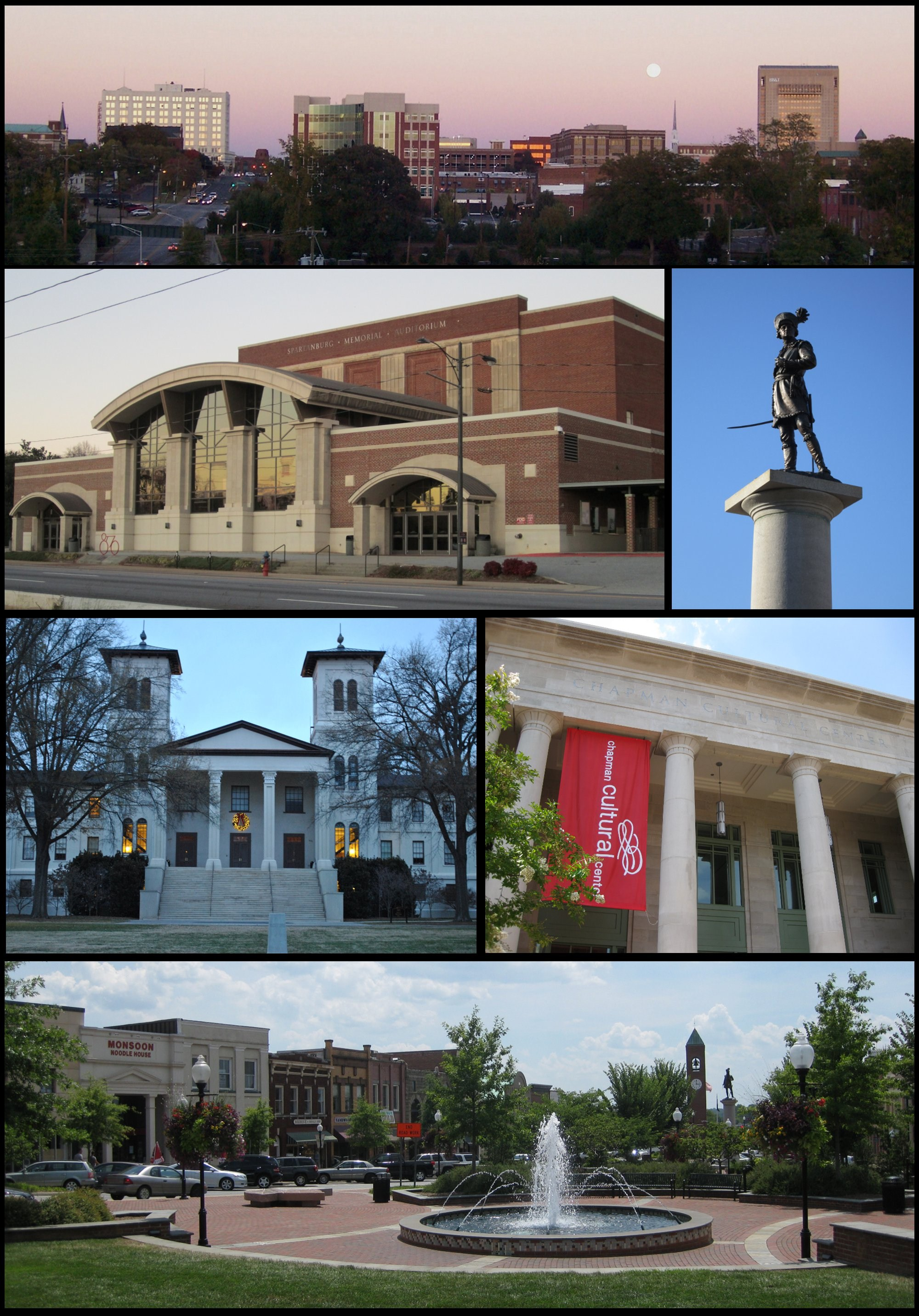 Clockwise from top: Spartanburg skyline, Daniel Morgan statue, Chapman Cultural Center, Morgan Square, Main Building at Wofford College, Spartanburg Memorial Auditorium